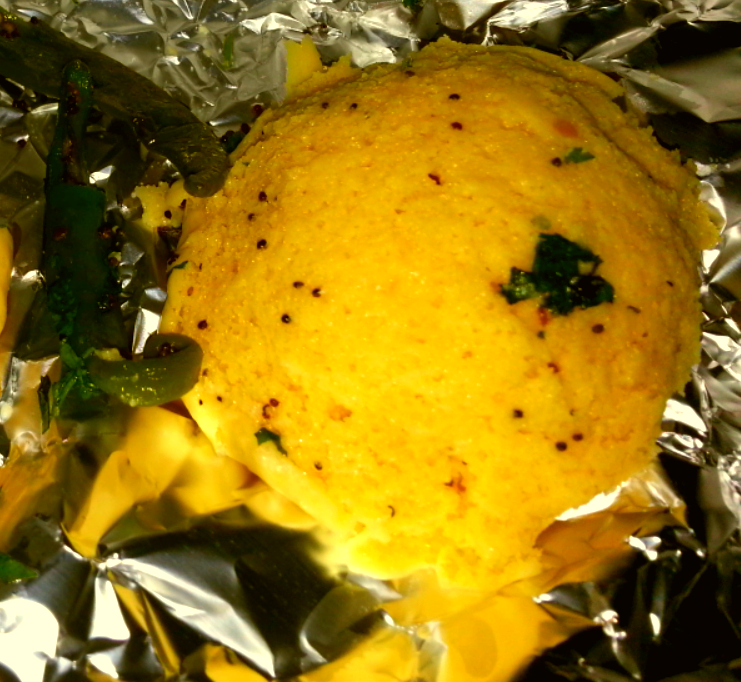 Idly Dhokla placed in aluminium foil. Dhokla prepared in the shape of south indian food idly is known as idly dhokla.